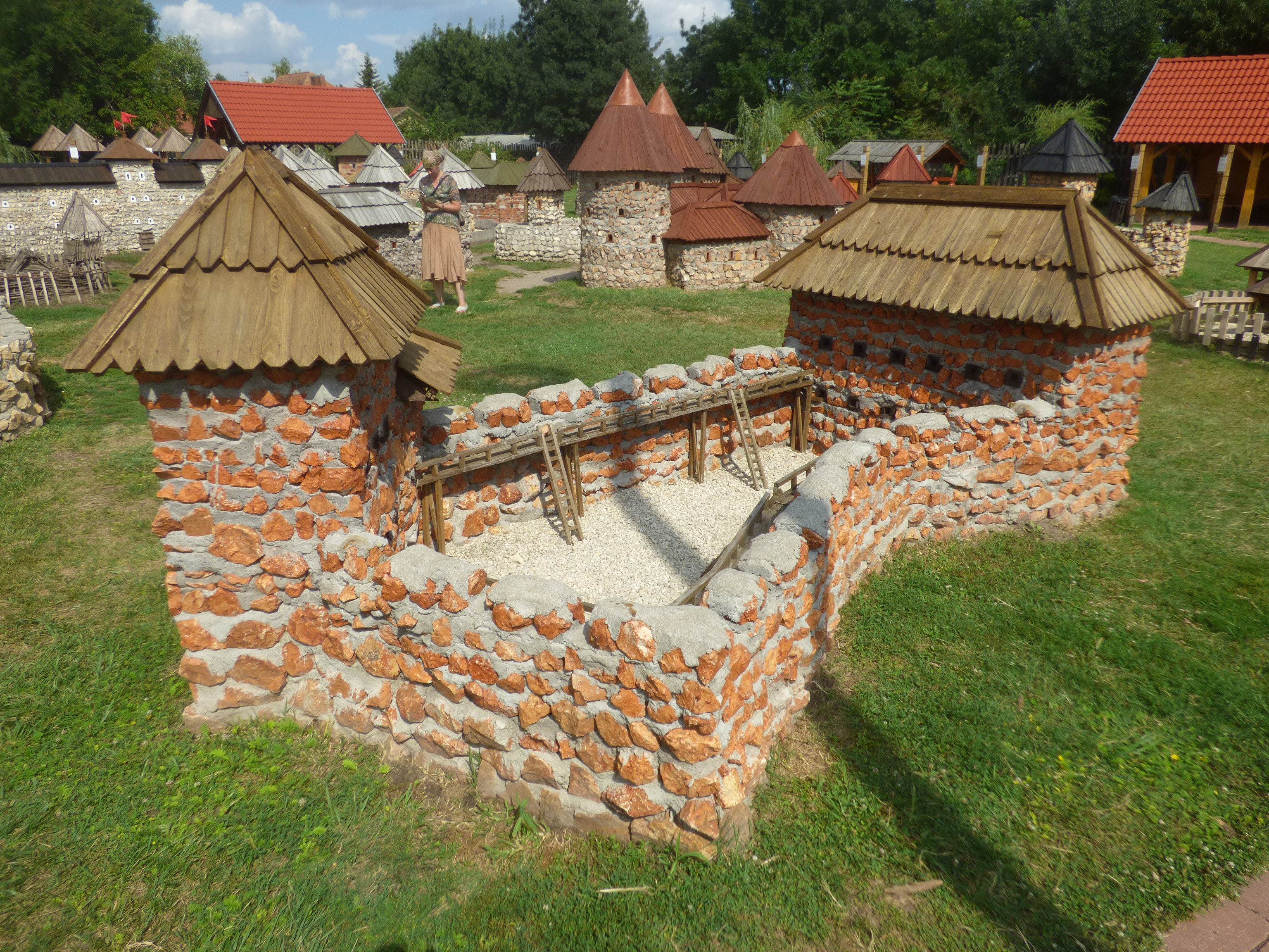 A felvidéki Hőnig várának makettje a dinnyési Várparkban